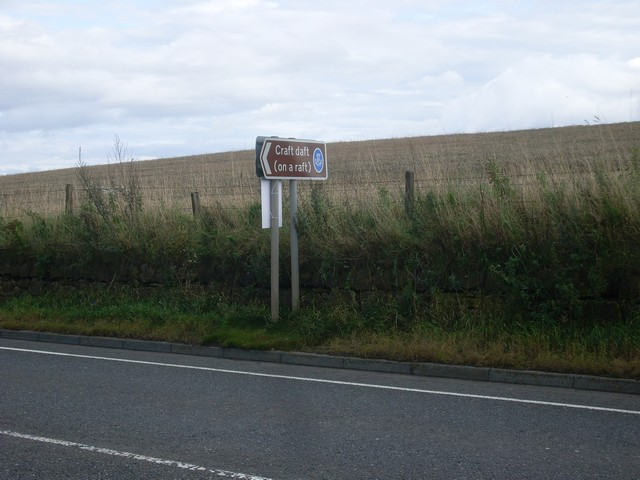 Scotland's best-named tourist attraction?! Directional signpost for the brilliantly named Craft Daft (on a Raft).